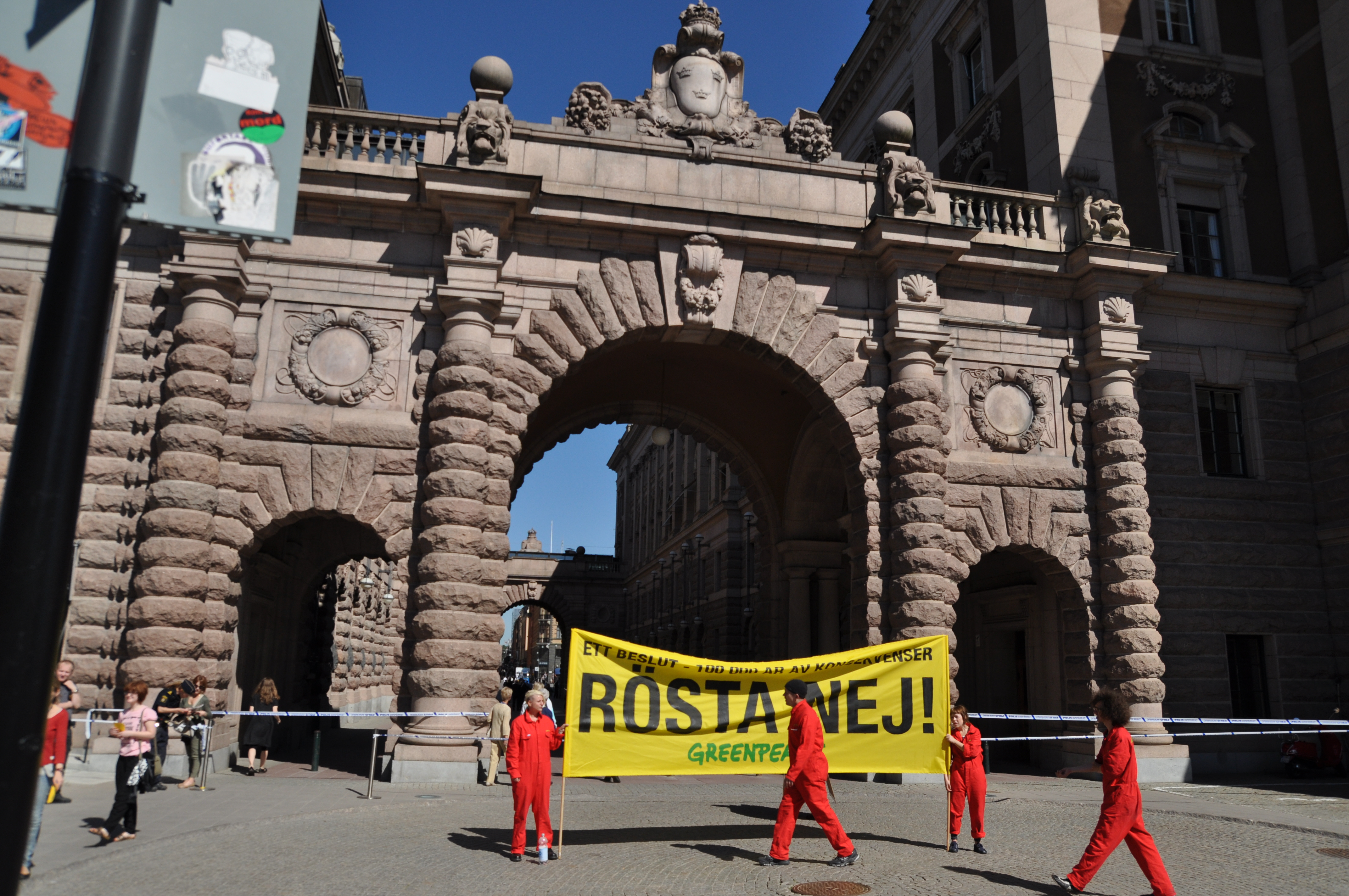 Greenpeace protests against the rescission of the prohibition to build new nuclear reactors in Sweden. At the same time, the Swedish Riksdag is making the decision.